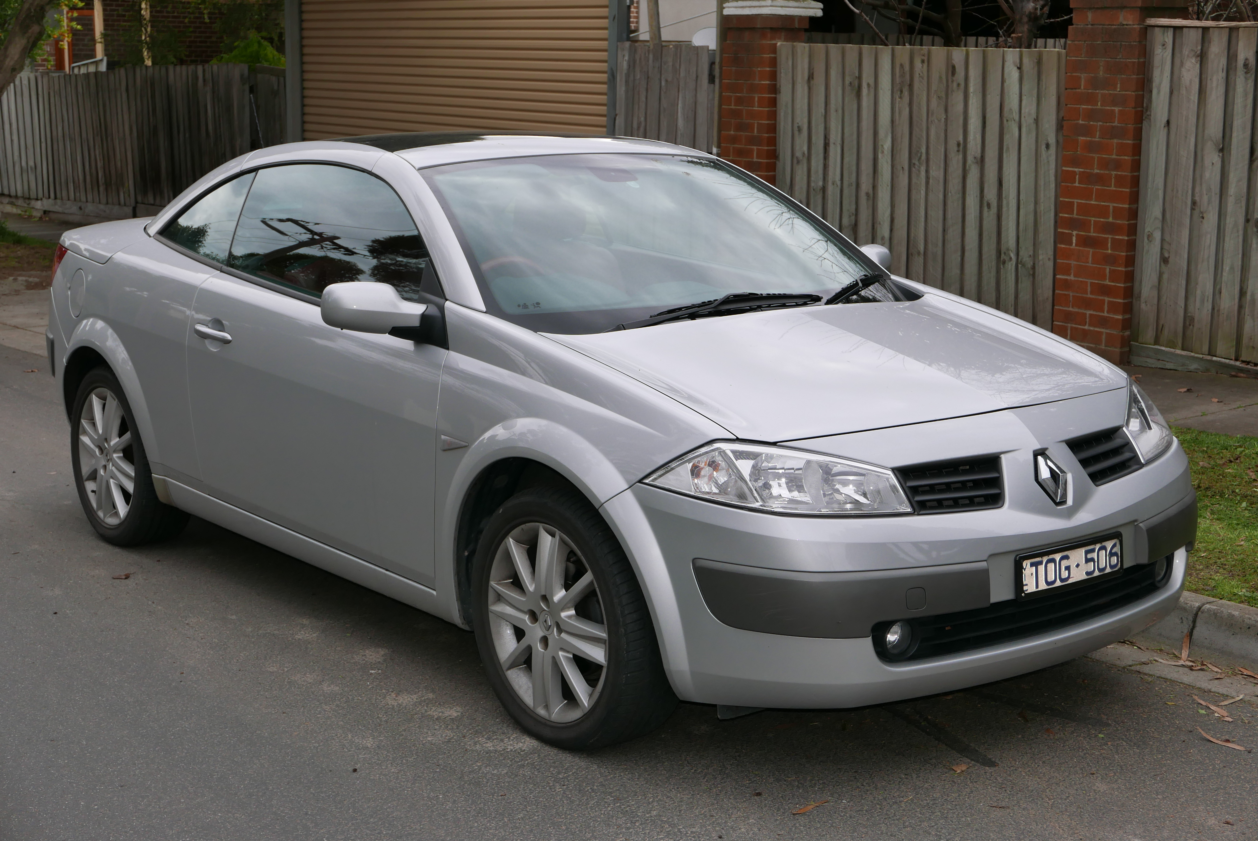 2005 Renault Mégane (X84) Dynamic LX convertible. Photographed in Kew East, Victoria, Australia. Vehicle registration enquiry results Jurisdiction Victoria Registration TOG506 Chassis code VF1EM050650630324 Engine code C066450 Compliance date 2005-05 Year of manufacture 2005